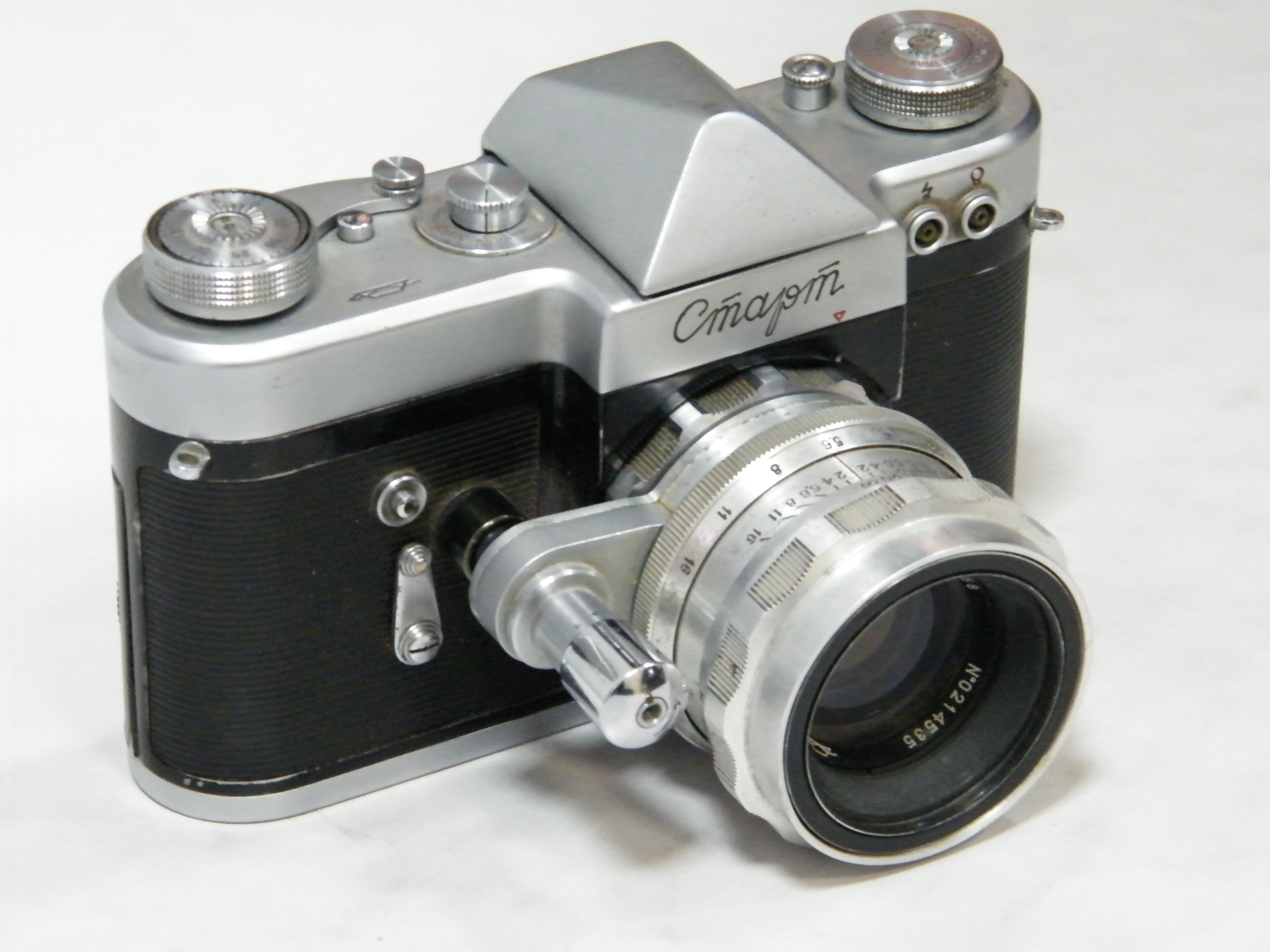 START_camera_from_Evgeniy_Okolov_collection